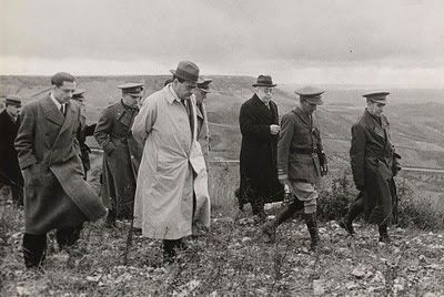 The goverment of the Spanish Republic decreed to Barcelona as the capital of the country, from November of 1937 until 26 January of 1939, in the Spainsh Civil War. In the image Azaña and Negrín visit a republican front on the outskirts of Barcelona accompanied by two of the main military authorities of the Republic: Vicente Rojo Lluch and José Miaja, in November 1937.